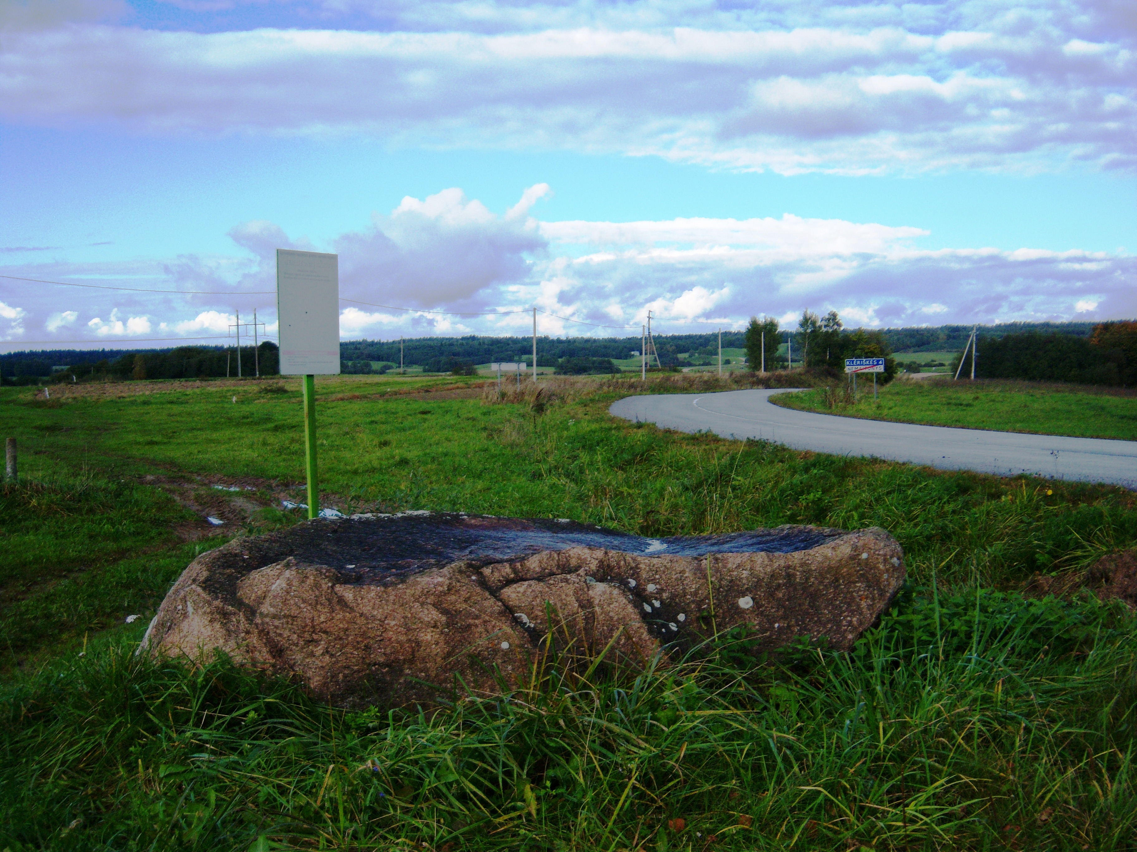 Nemaitonys stone, Kaišiadorys District, Lithuania